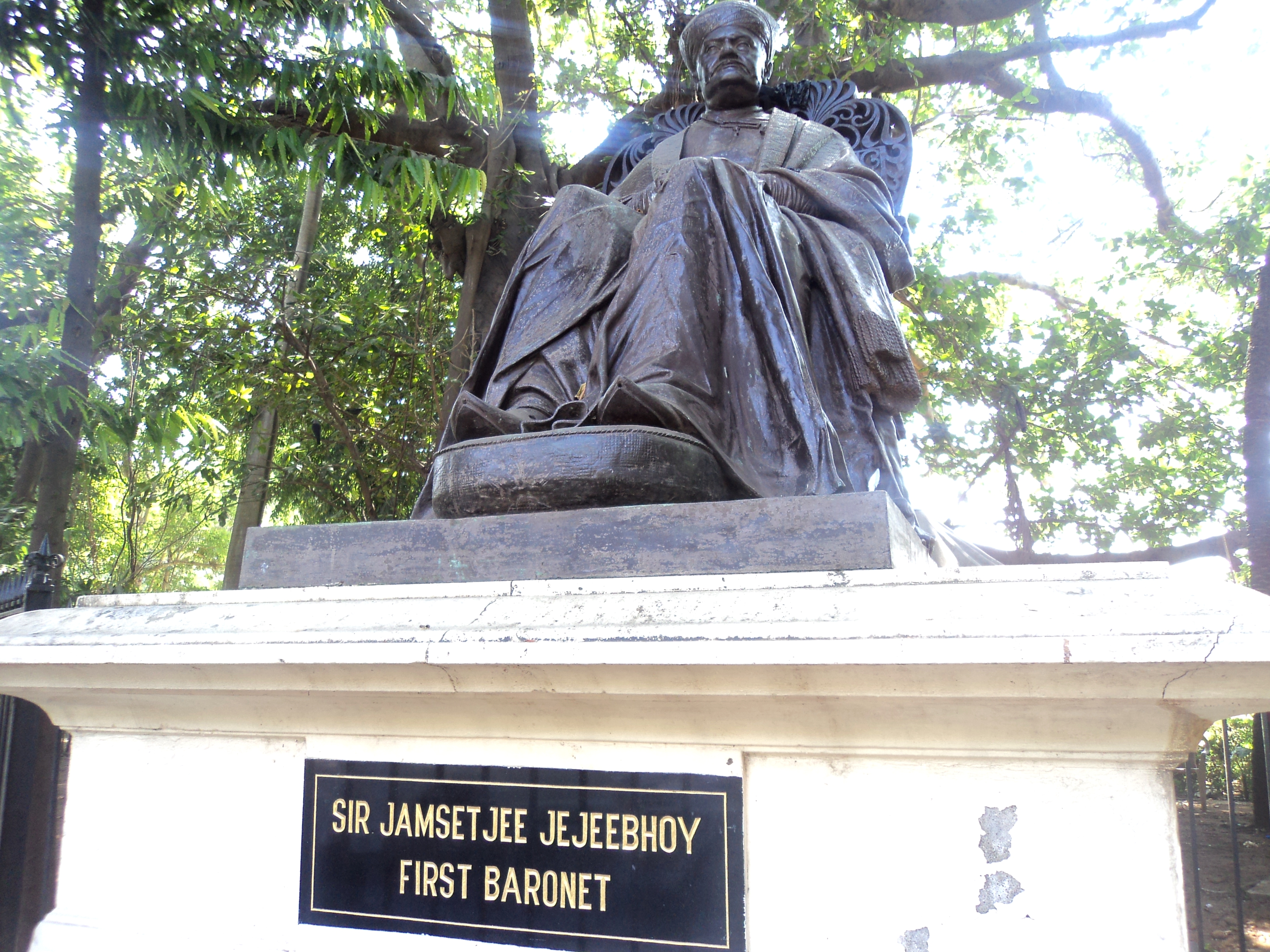 the statue of 1st Baronet, Sir Jamsetjee Jejeebhoy,mumbai